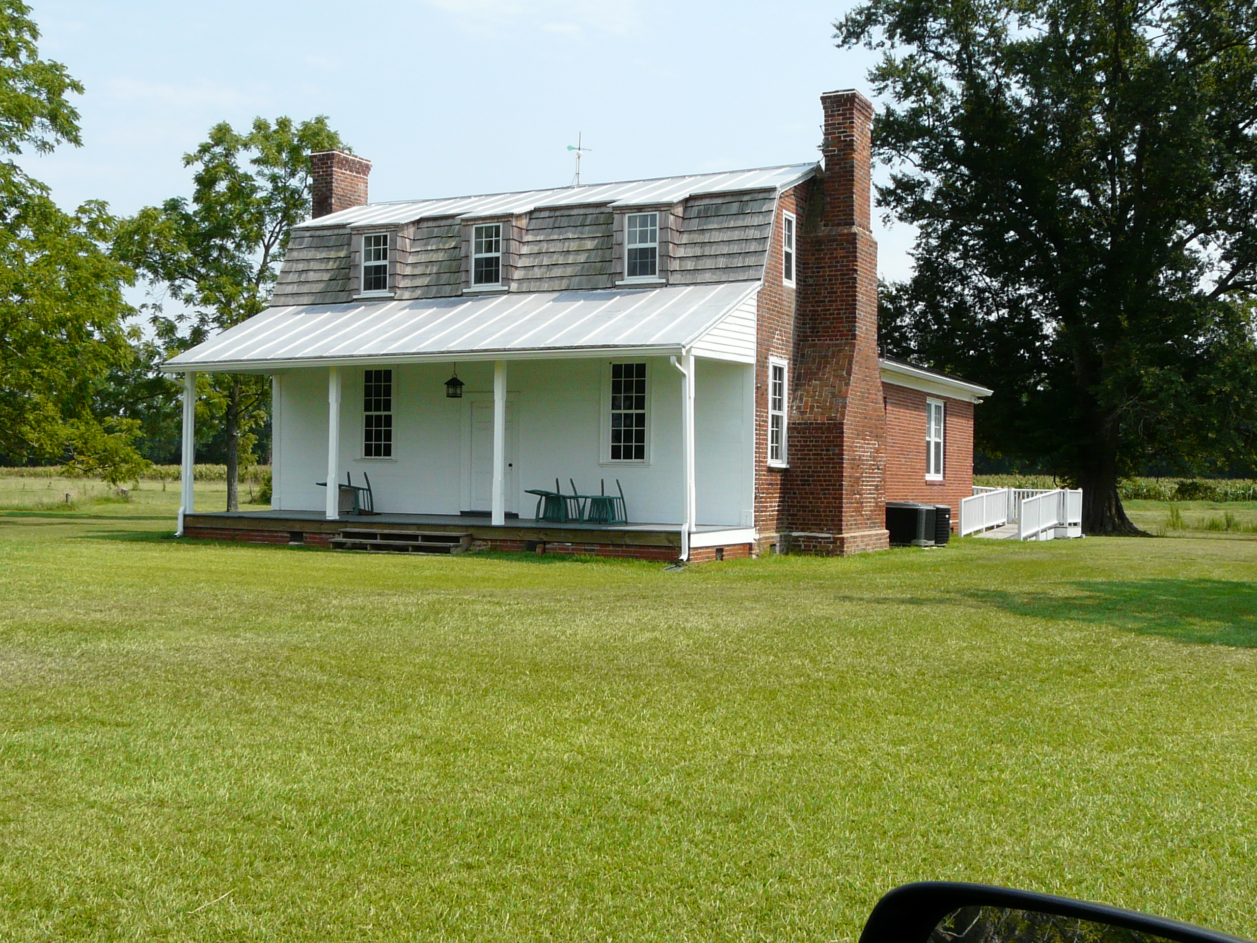 North-West Corner of Myers-White House, Perquimans County, North Carolina. Listed in National Register of Historic Places.